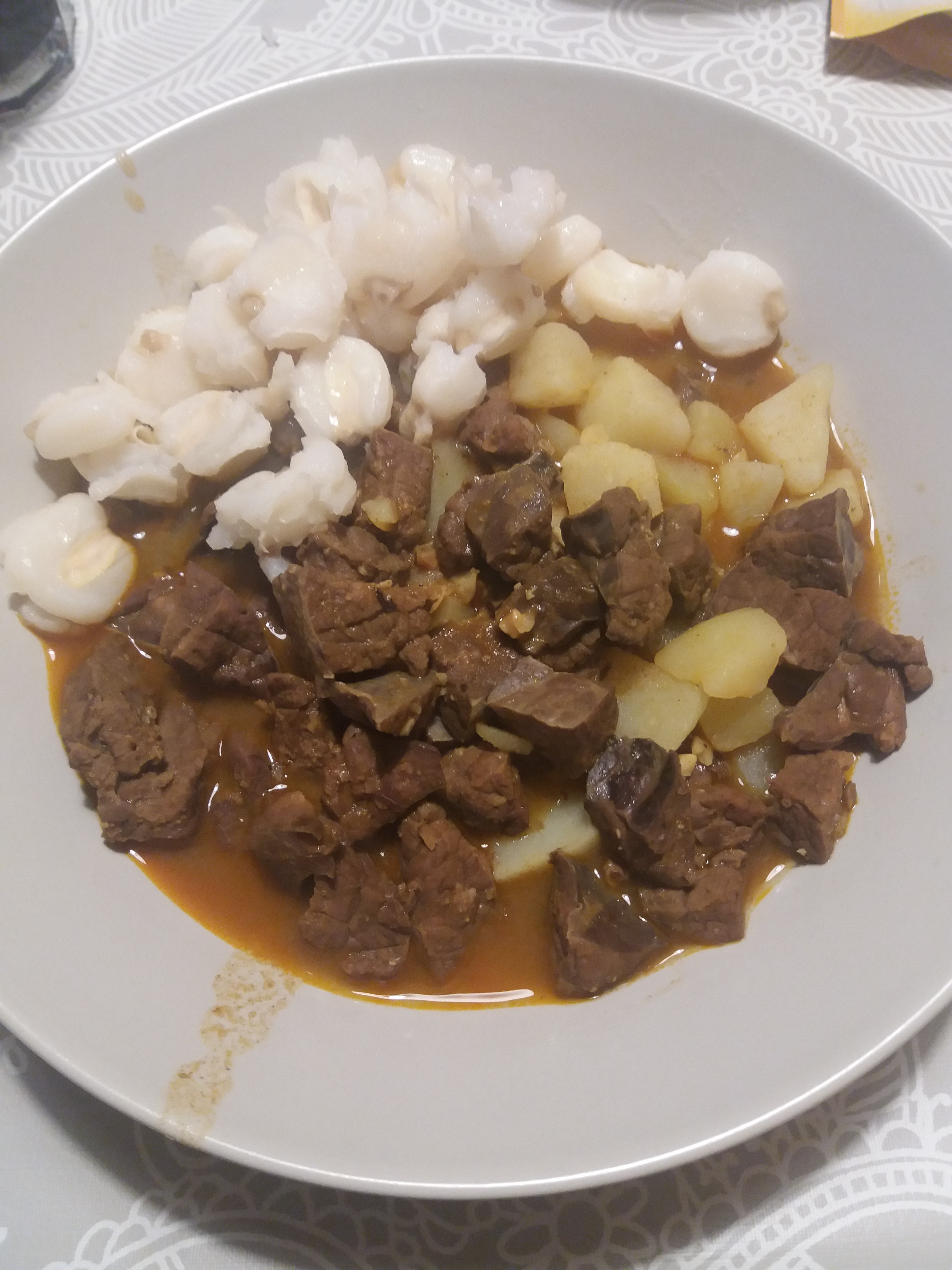 Chanfainita con mote